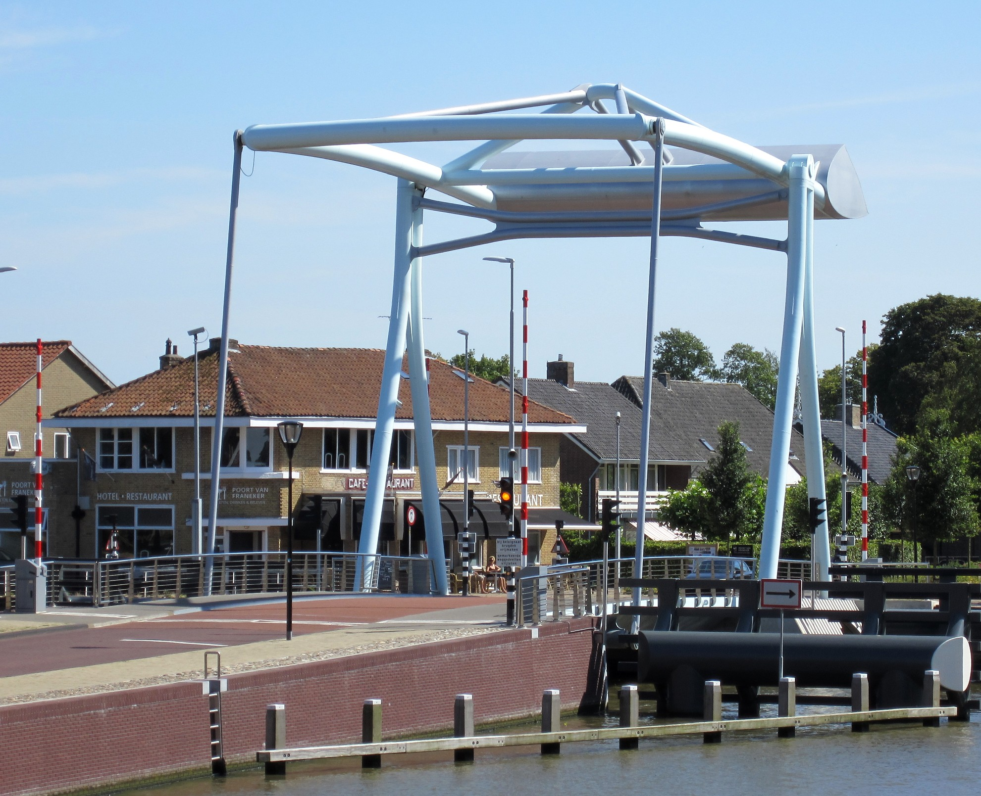 The Stationsbrug (Frisian: Stasjonsbrêge), in Franeker/Frjentsjer, Friesland, the Netherlands. Front view as seen from the Oosterpoortsbrug.